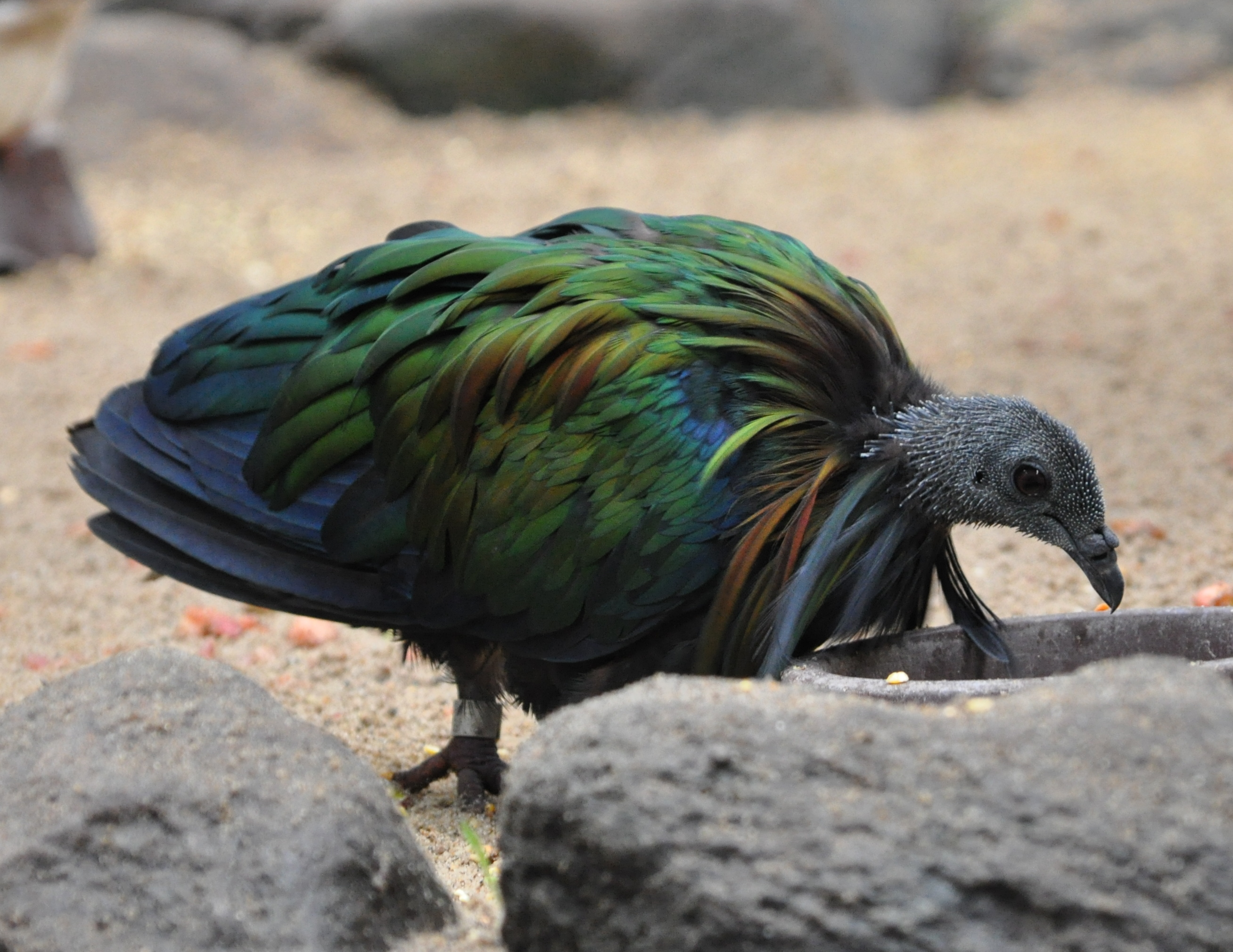 Nicobar Pigeon (Caloenas nicobarica) in the Walsrode Bird Park, Germany.